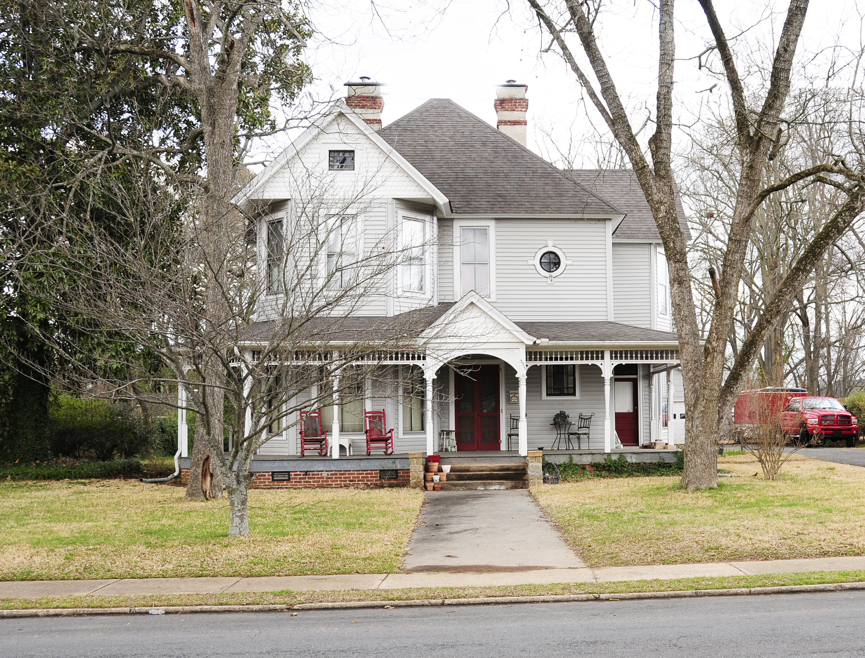 Gaffney Residential Historic District